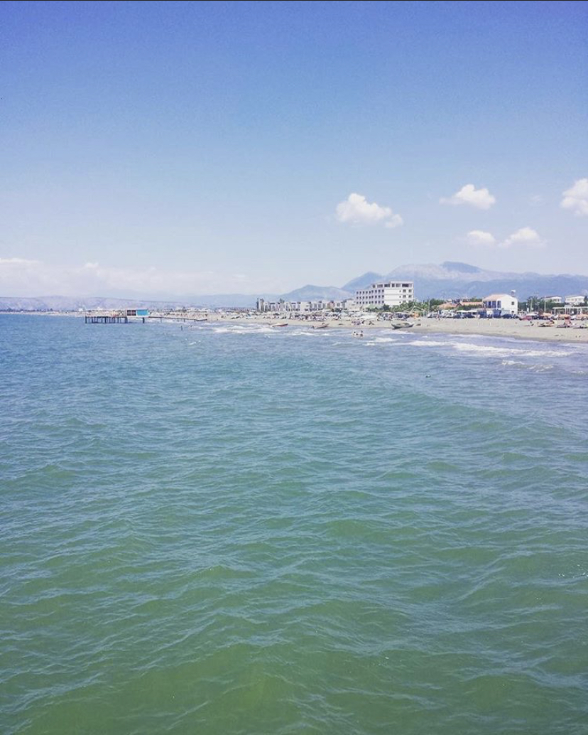 Tale's seaside look from the sea.